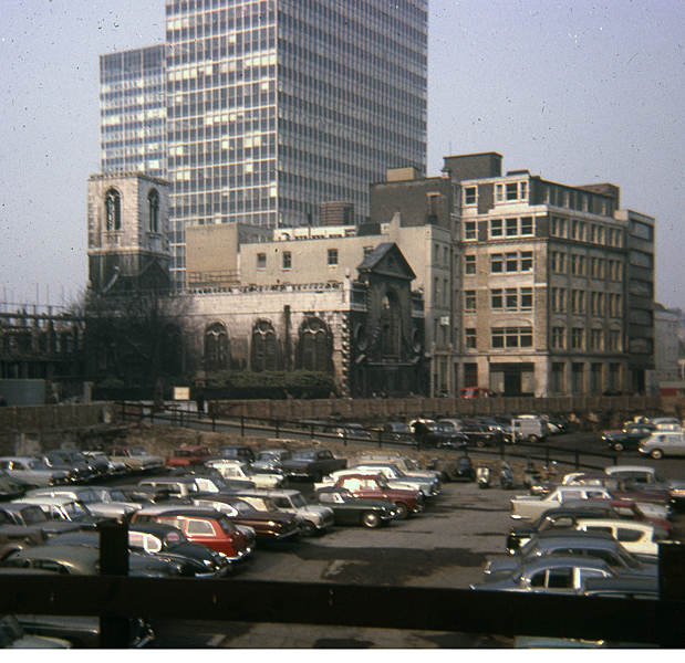 The ruined church of St Mary Aldermanbury in situ in London